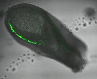 7.5pdc CD1 whole embryo, R&D antibody 1:100, Jackson FITC Rabbit anti-Goat